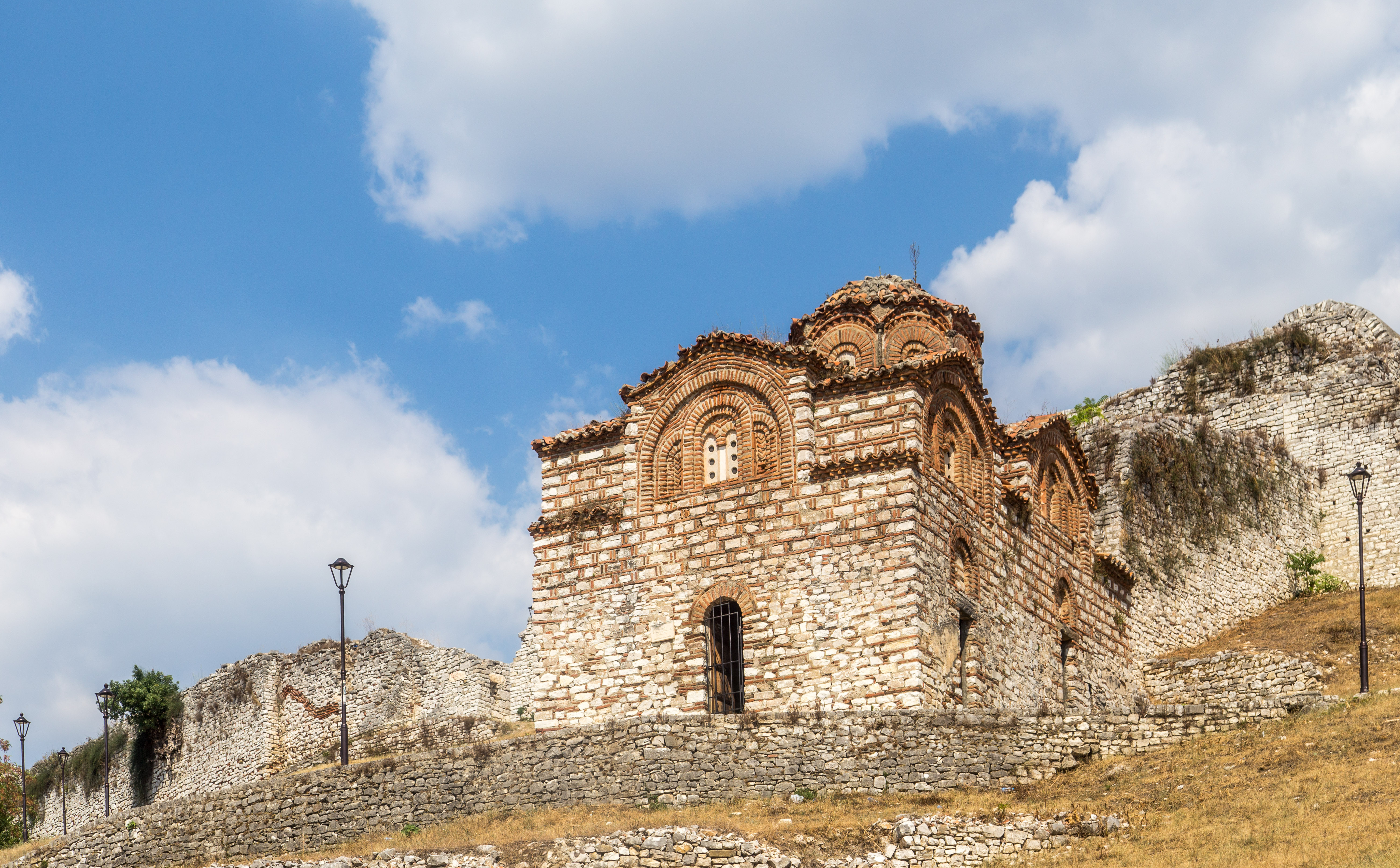 Churche Castle: Building of the Church of the Holy Trinity. The population of the fortress was Christian, and it had about 20 churches (most built during the 13th century).